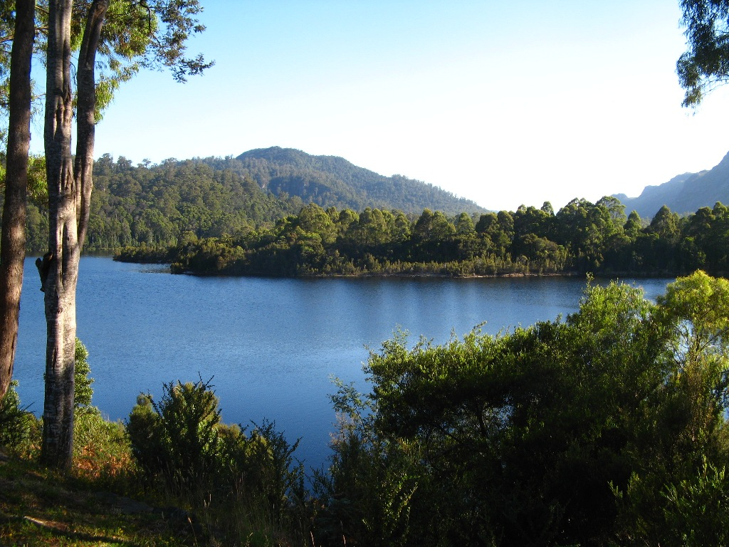 Lake Rosebery in Tasmania, Australia taken from Tullah